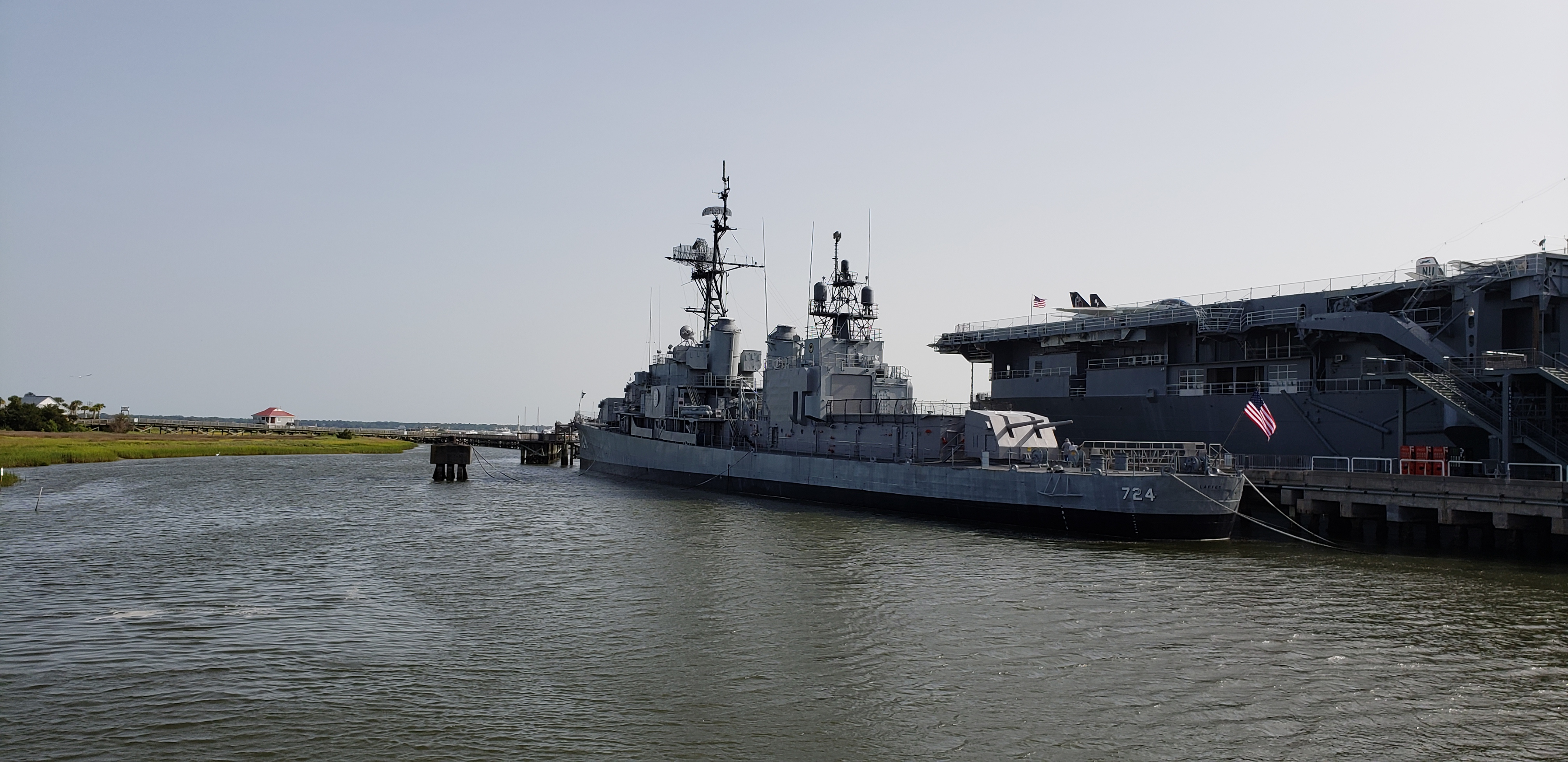 Photo of the USS Laffey (DD-724) at the Patriots Point Naval & Maritime Museum on June 24, 2019.